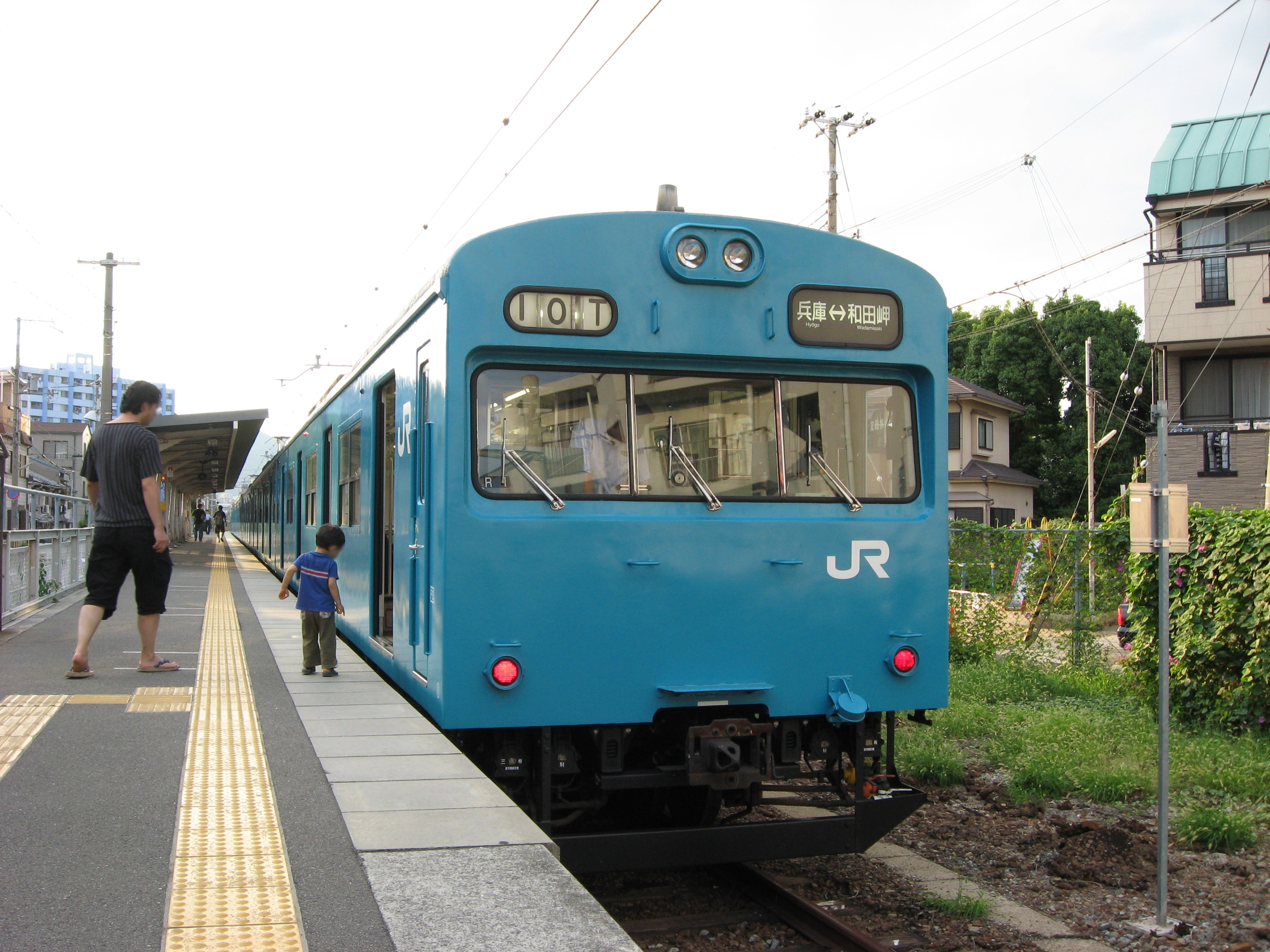 JR West Wadamisaki Station Platform